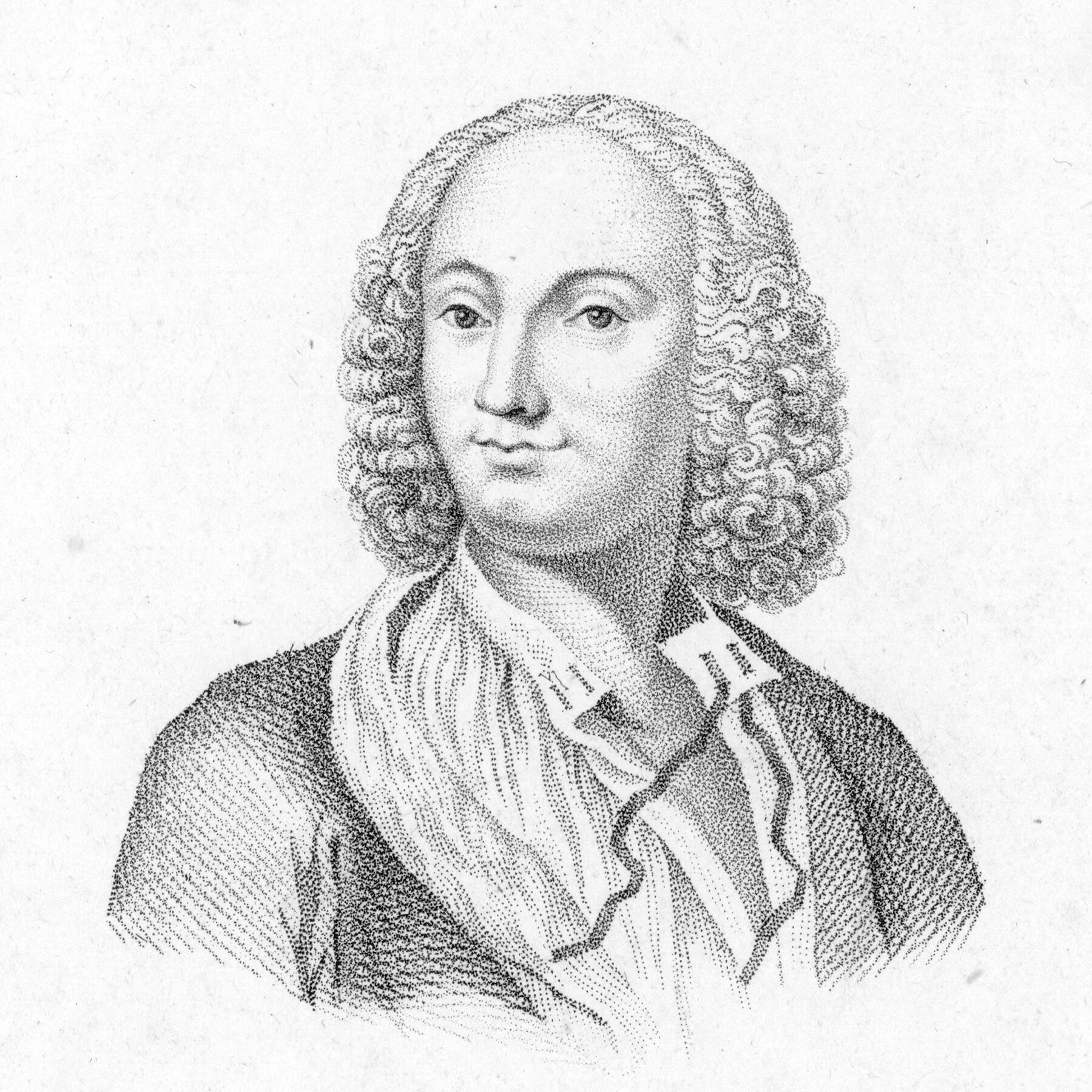 Depicted person: Antonio Vivaldi